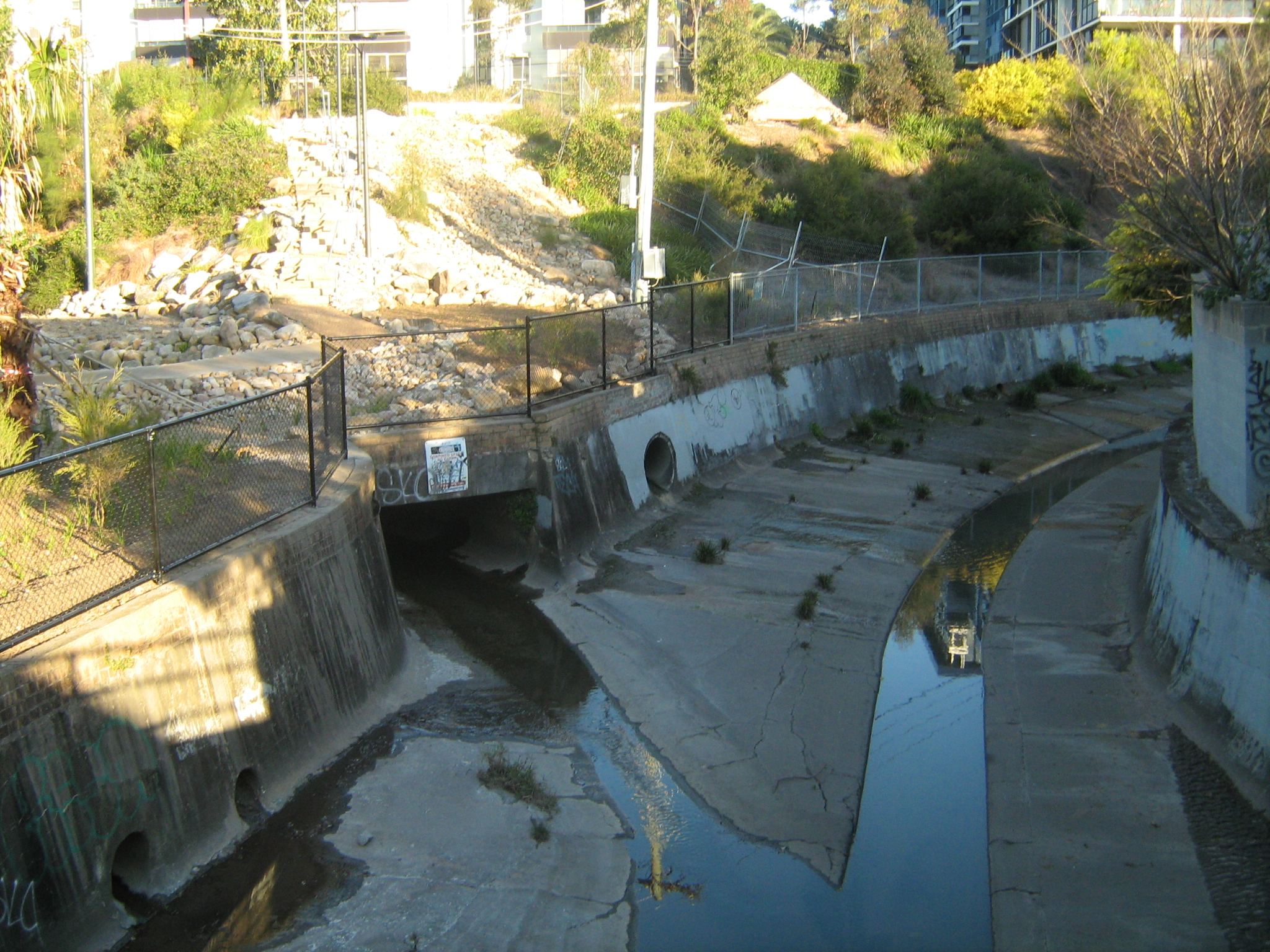 The junction of Johnstons Creek and Orphan School Creek at Camperdown, New South Wales. Orphan School Creek is the concrete tunnel branching off from the uncovered channel of Johnstons Creek.